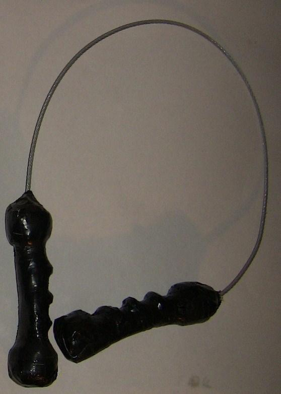 Piano's wire, transformed in a weapons